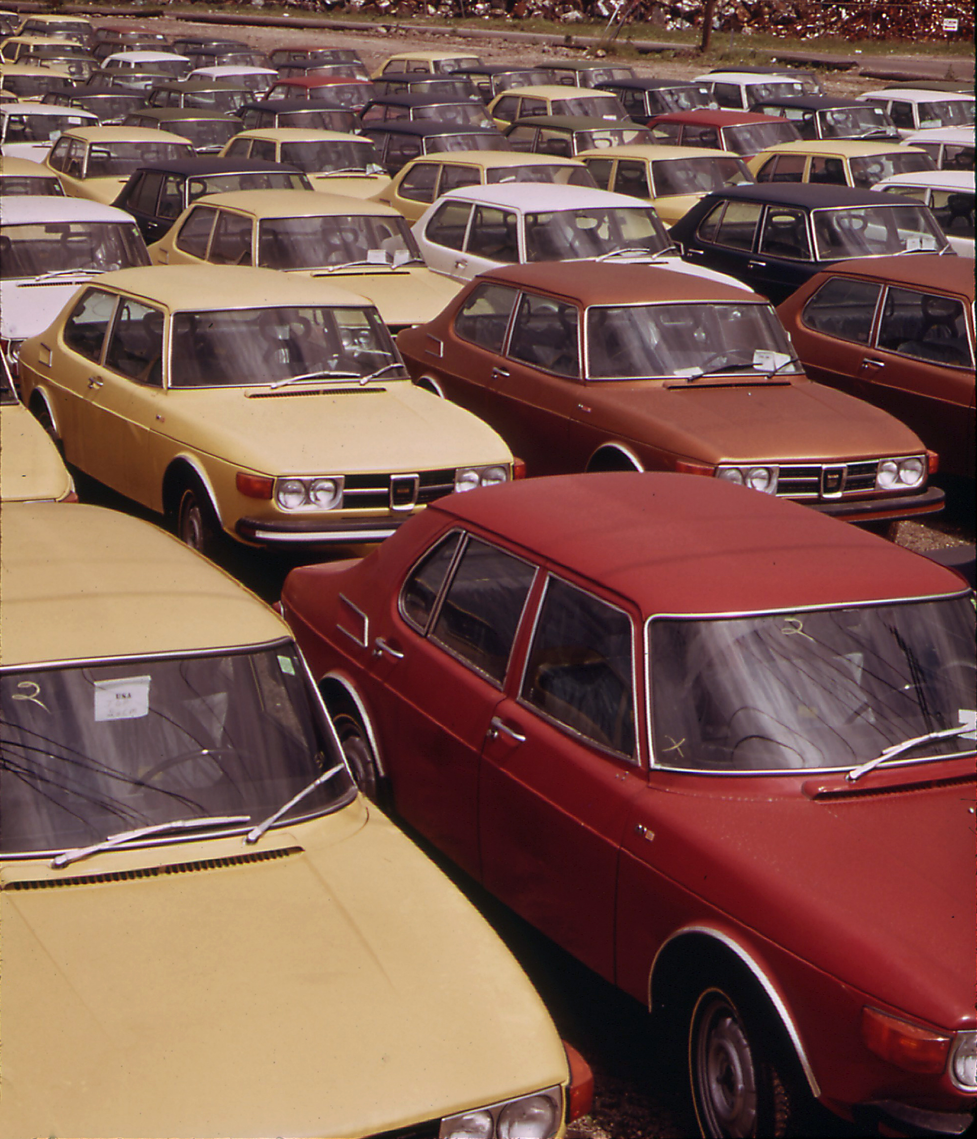 Rows of new Saab 99s awaiting shipment, in Providnce, RI. Crop of File:FIELDS POINT ON THE WATER-FRONT. NEW CARS IN FOREGROUND AND SCRAP METAL FROM SHREDDED CARS IN THE BACKGROUND-READY... - NARA - 547469.jpg by Alexander, Hope, Photographer (NARA record: 8452212).